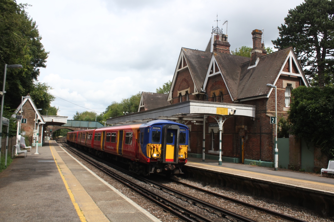 455721 calls at Box Hill& Westhumble with a South Western Railway service from London Waterloo to Dorking.